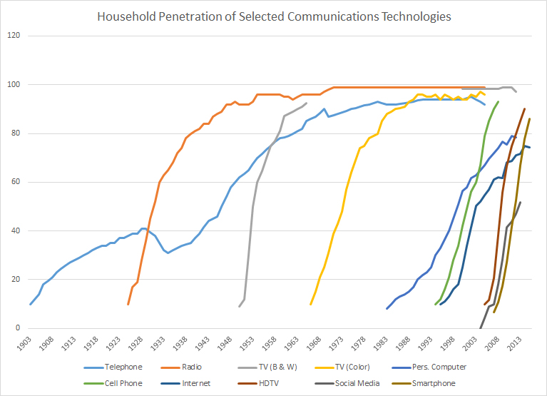 graph created in Excel using data available on Google data